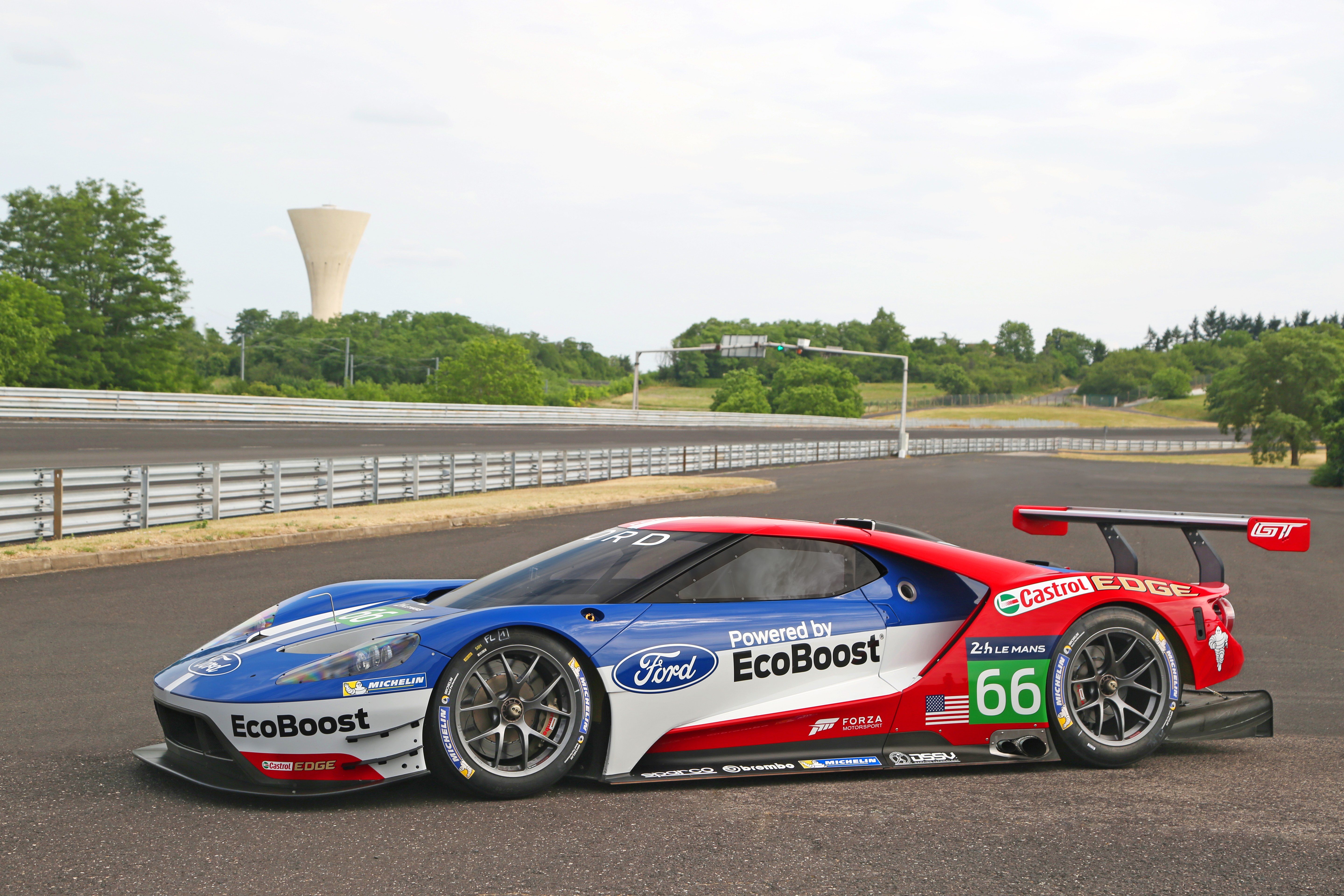 The new Ford GT LM GTE Pro for WEC and Le Mans competition unveiled today at Le Mans, France. The Ford LM GTE Pro race car will debut in 2016, and will be campaigned by Chip Ganassi Racing.